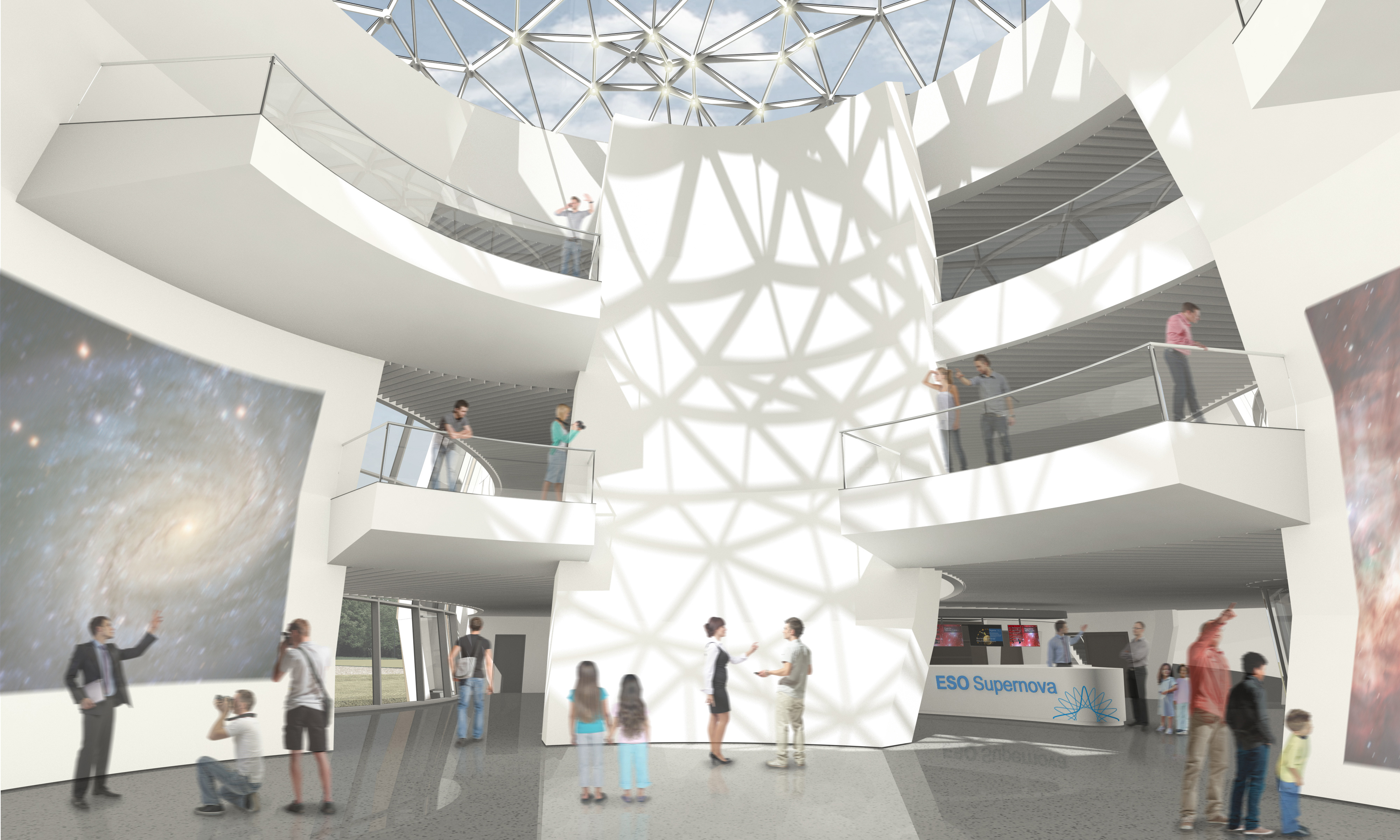 The ESO Supernova will be a showcase for astronomy for the public. It is made possible by a collaboration between the Heidelberg Institute for Theoretical Studies (HITS) and ESO. The Klaus Tschira Stiftung (KTS), a German foundation that supports the natural sciences, mathematics and computer science, offered to fully fund the construction and ESO will run the facility. The striking building was designed by the architects bernhardt + partner.